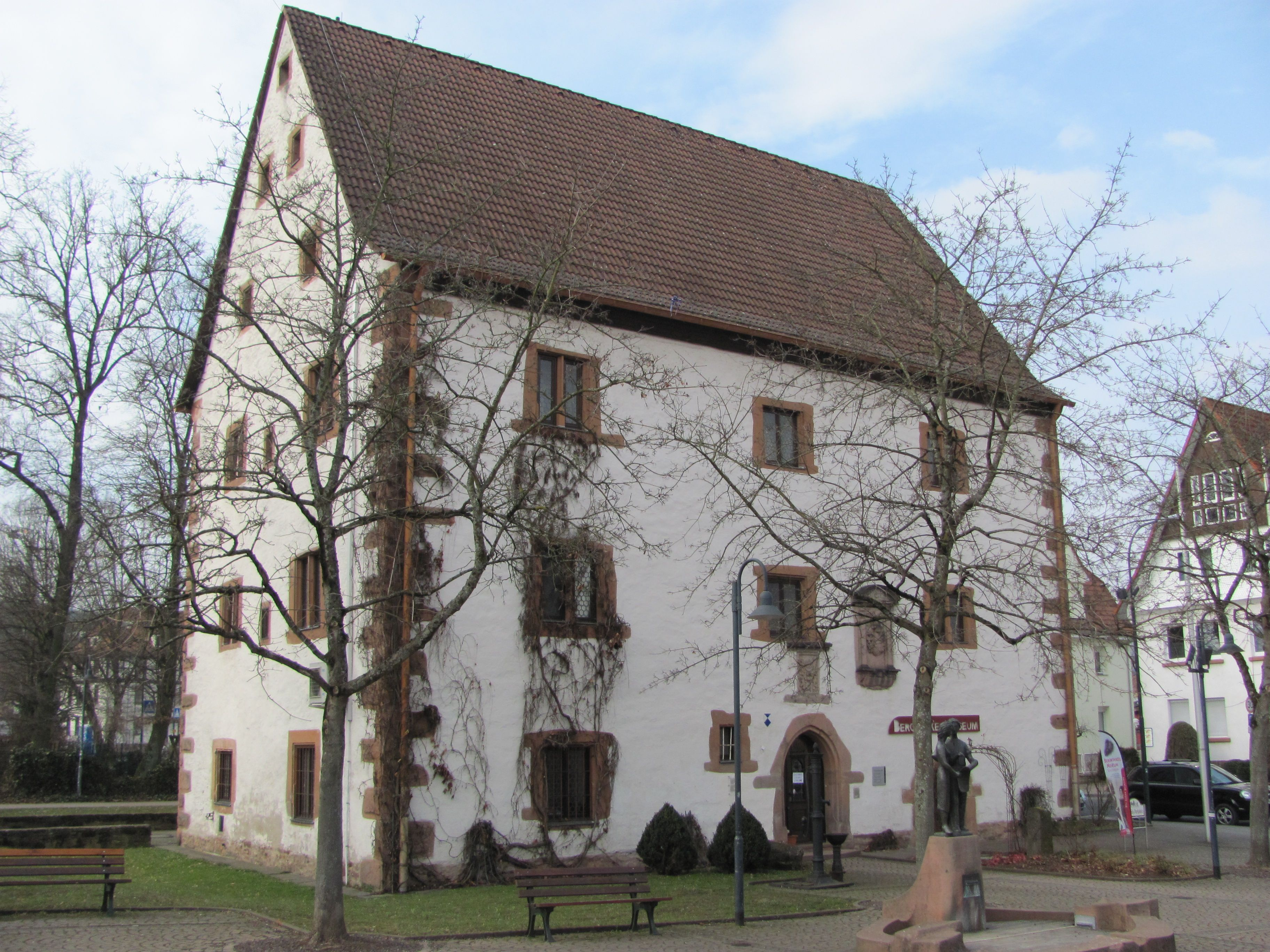 Lauterschlösschen, Schlüchtern, Germany